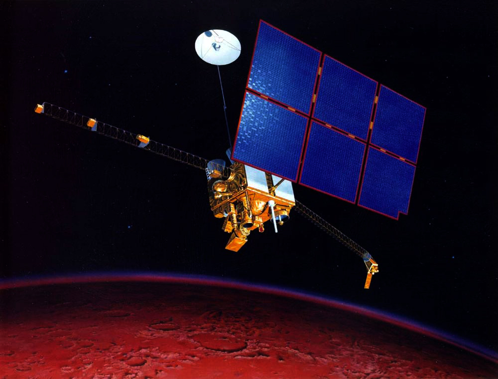 Mars Observer in Mars Orbit showing the solar pannel.